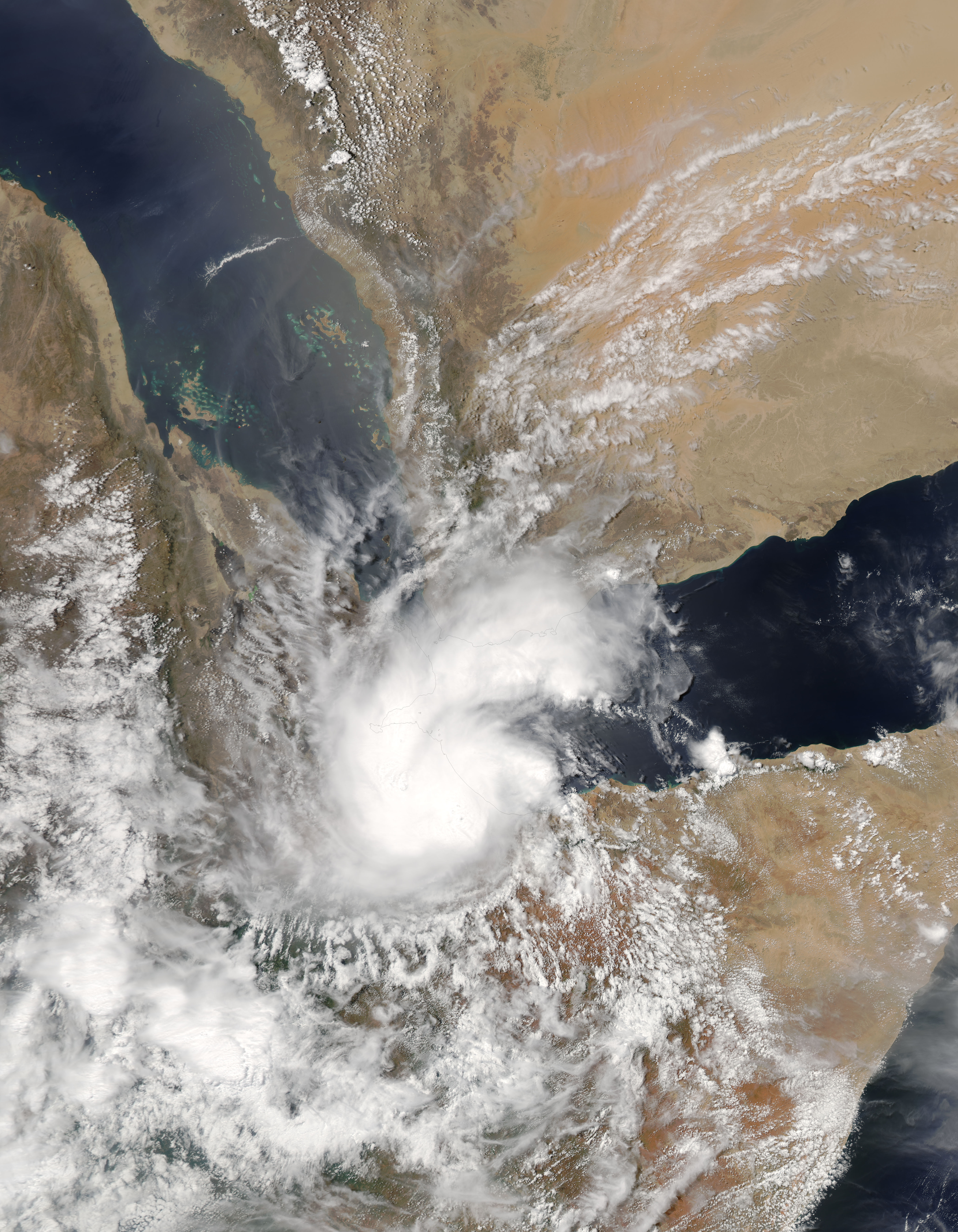 Cyclone Sagar shortly after landfall in Somaliland on May 19, 2018